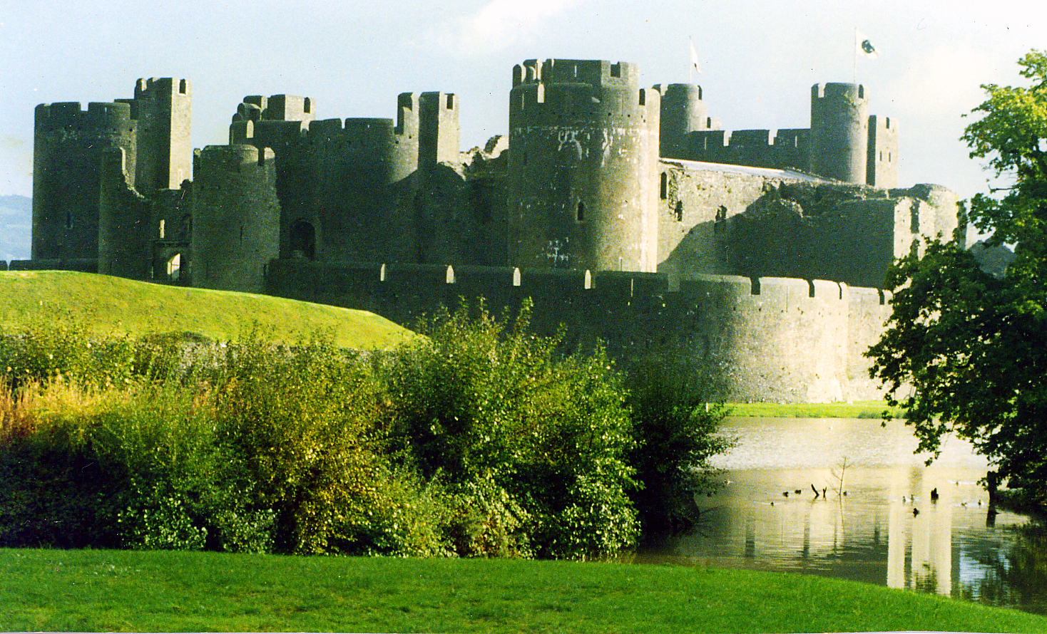 Caerphilly Castle in WalesCaerphilly Castle, Wales